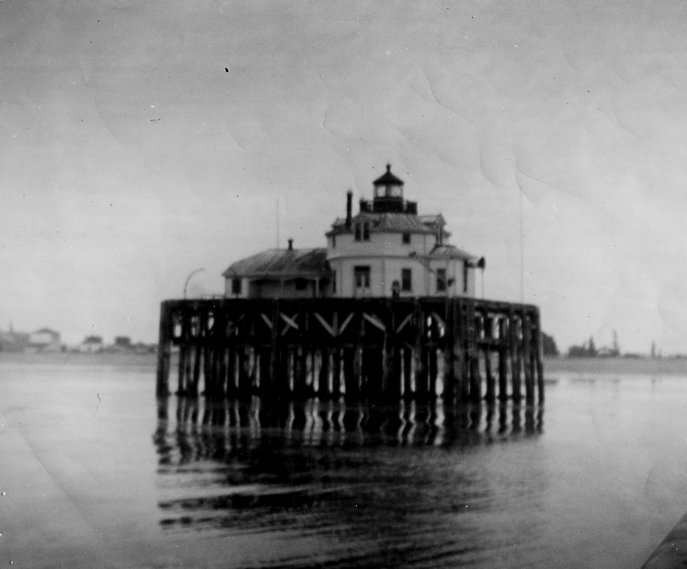 1943 photograph of Semiahmoo Harbor Light (USCG); cropped